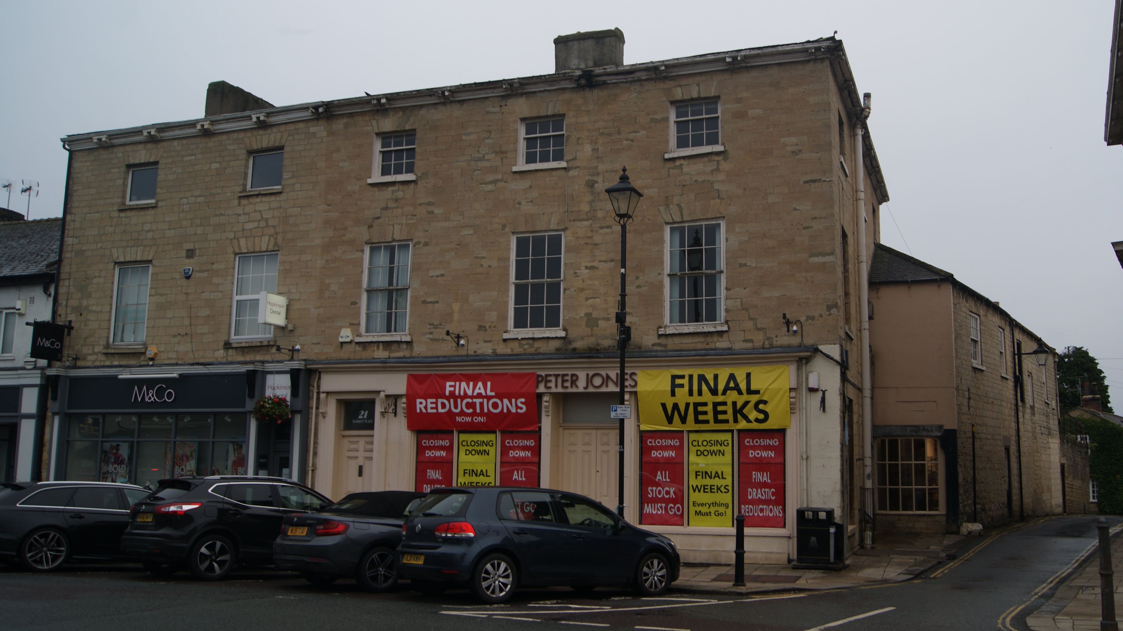 Closing down sale, Peter Jones, Market Place, Wetherby, West Yorkshire. Taken on the evening of Monday the 10th of June 2019.